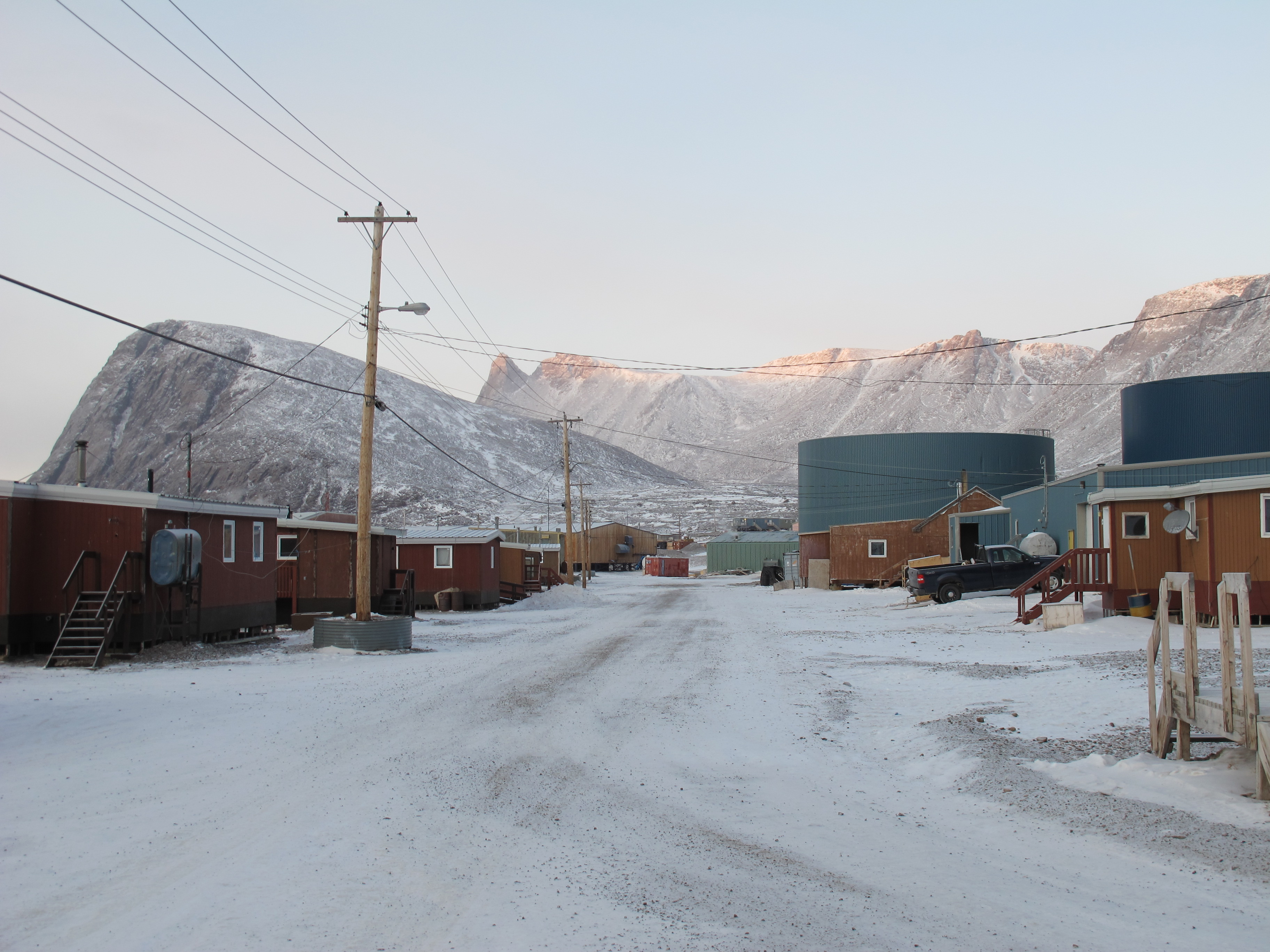 in the centre of the community some of the homes